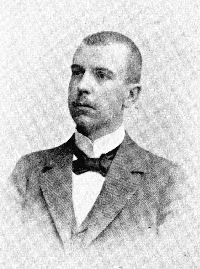 Swedish author (1863-1938)